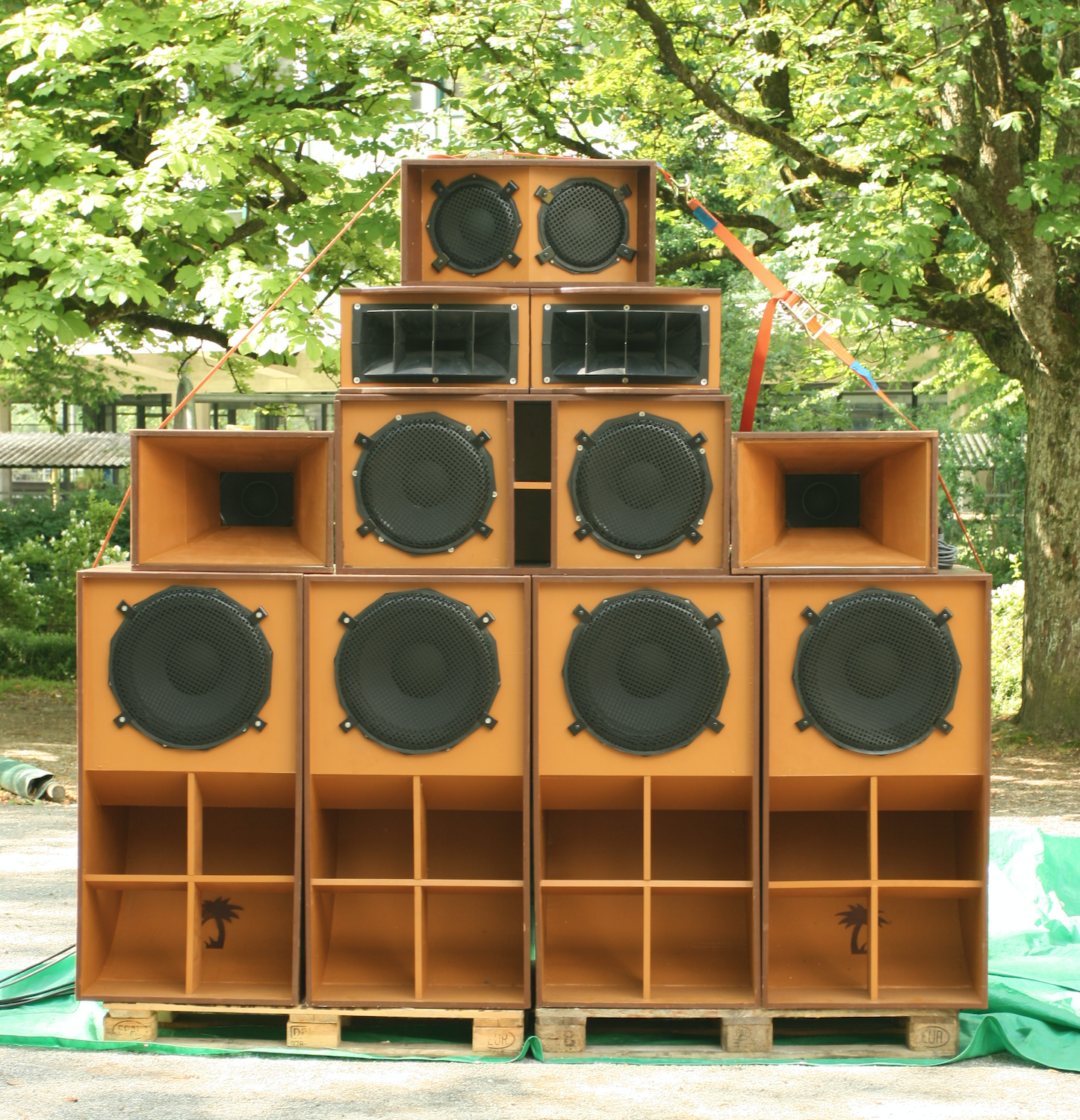 Dub-I-Land Soundsystem @ Lorrainepark 22. June 2013 during European Cycle Messenger Championsship, Bern 2013